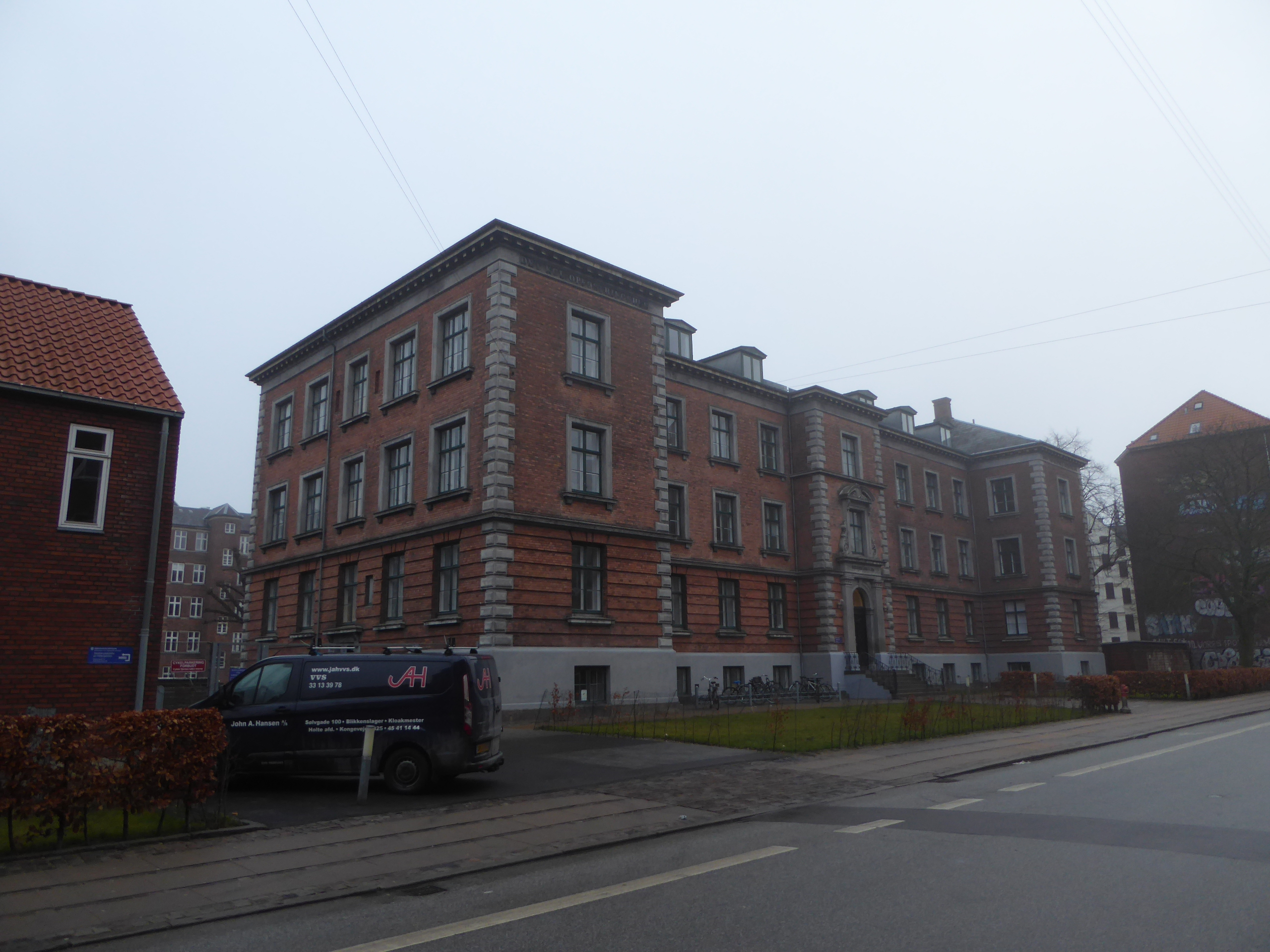 The school Heibergskolen at Randersgade in Østerbro in Copenhagen.